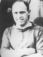 Image is from Liverpool teamphoto in 1921.